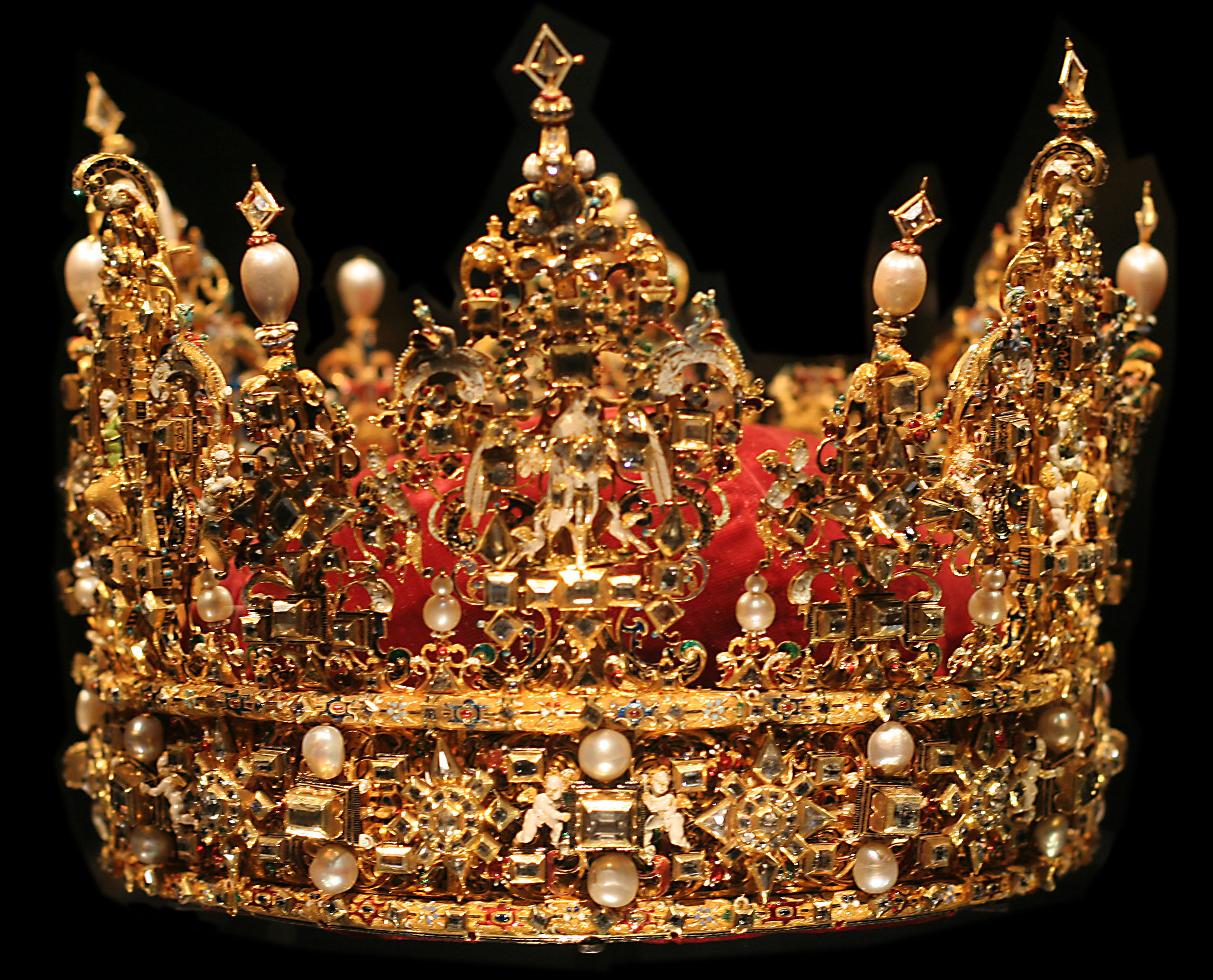 The crown of King Christian IV of Denmark, currently located in Rosenborg Castle, Copenhagen.